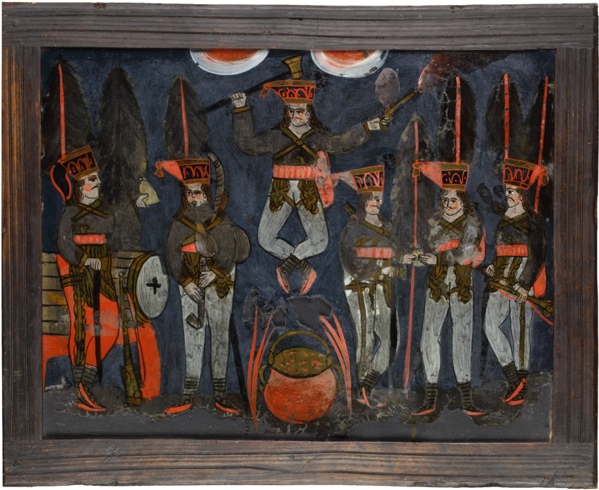 The motif known on Tatra Mountains foothills art as "Surowiec's acceptance". Glass painting, around 1840. Jakub Surovec (in the middle, jumping) accepted into the Juraj Janosik's (first on the left) group. As a form of highwaymen exam, he cuts off one pinnacle of a mountain pine with a poleaxe, while shooting off the other one with a pistol. While such a scene never occurred, it is widespread in Goral legends. Presented in main building of Tatra Museum in Zakopane.